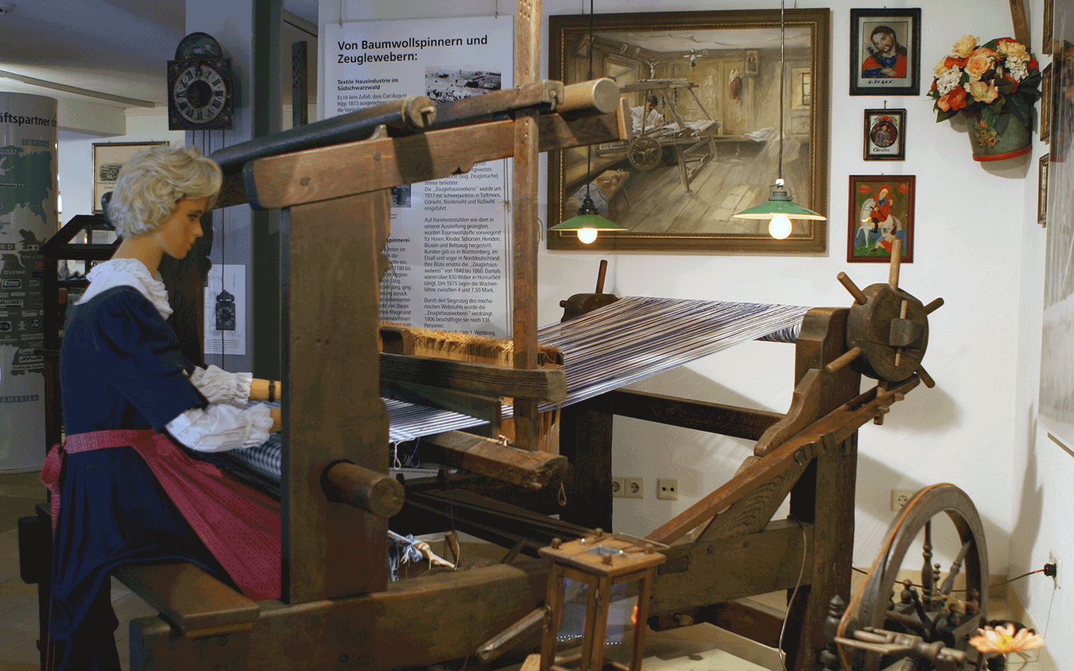 a still functioning old handloom as part of the exhibition in the textile museum of company Brennet in Wehr (Baden), Germany